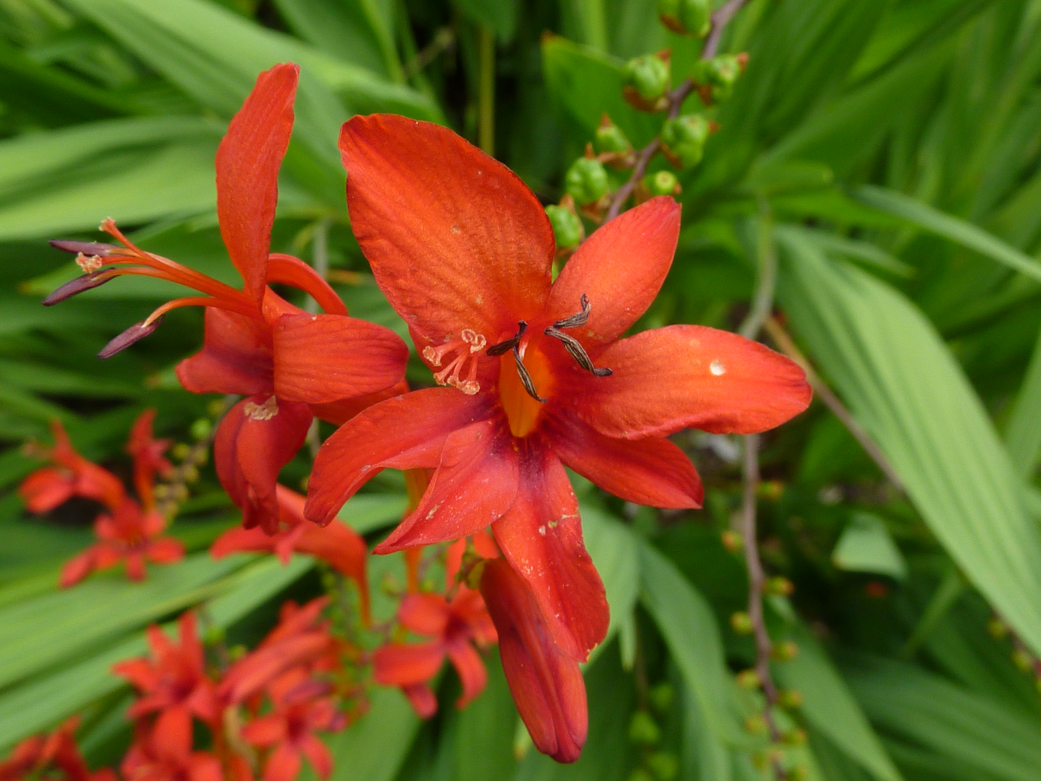 Crocosmia 'Lucifer', Cambridge University Botanic Garden